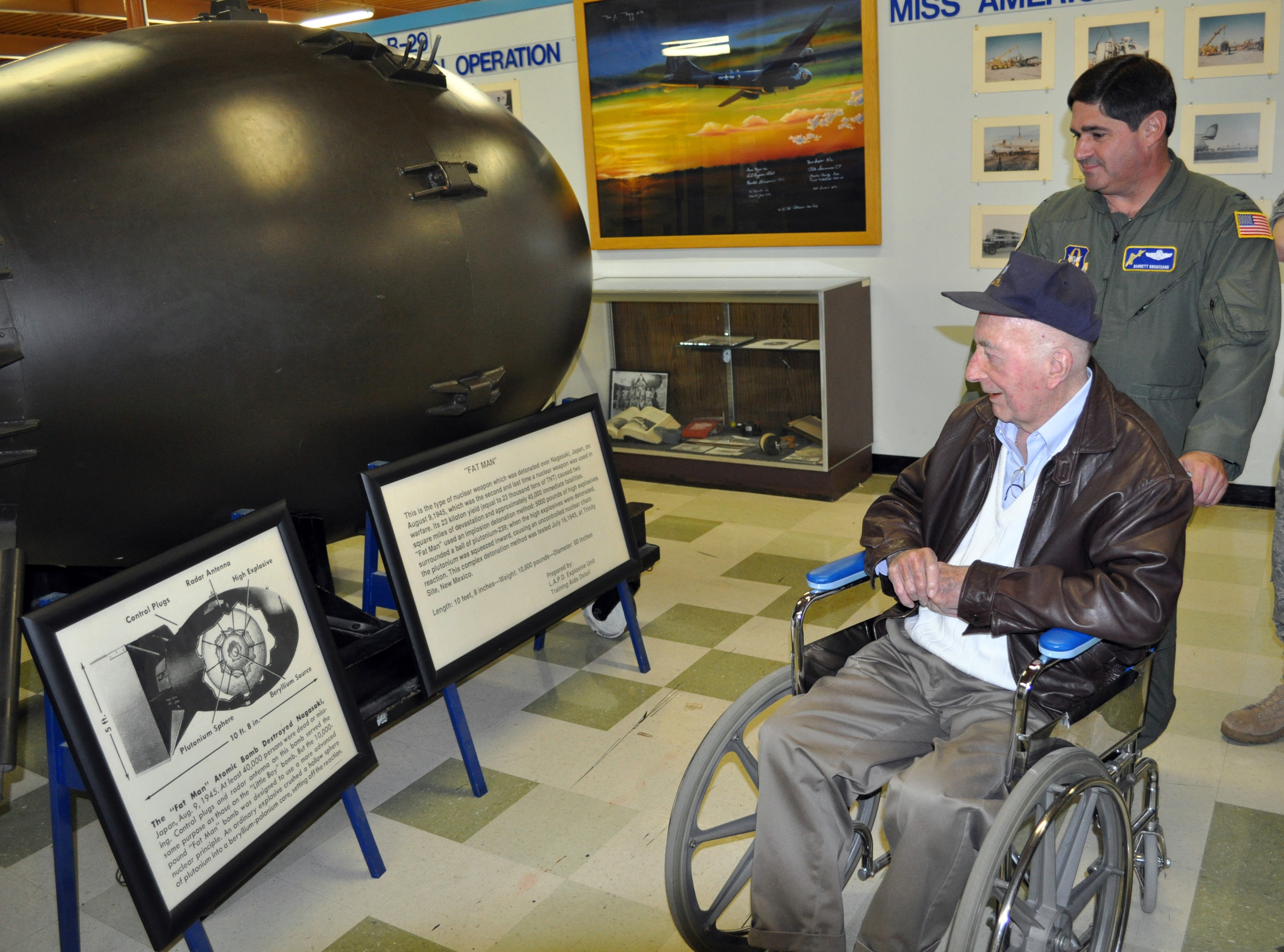 Veteran browses a "fat man" A-bomb replica at the Jimmy Doolittle Air & Space Museum